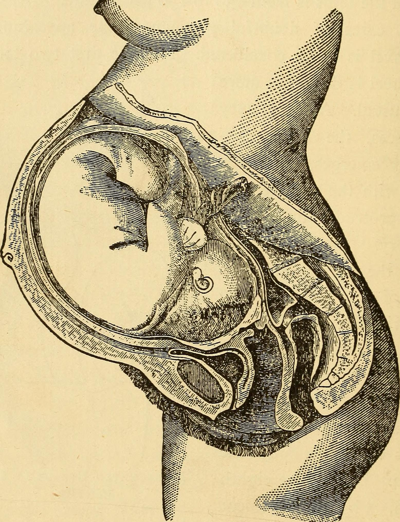 Title: Feminology; a guide for womankind, giving in detail instructions as to motherhood, maidenhood, and the nursery Year: 1902 (1900s) Authors: Dressler, Florence Subjects: Publisher: Chicago, C. L. Dressler & co. Text Appearing Before Image: Impregnated Uterus at SixMonths. 136 FEMINOLOGY. Duration of Pregnancy.— As with almost every func-tion of life, the duration of pregnancy is subject to varia-tions; 40 weeks, or 280 days, is the approximate length of Text Appearing After Image: Natural Position of the Child at Nine Months. time. If birth occurs more than two weeks short of thisperiod, the infant will show some indication of prematuredelivery. It is not uncommon that gestation is prolongedbeyond 40 weeks; in rare cases, has reached a period of 45weeks. PREGNANCY. 137 When the date of impregnation is not known, the pro-spective mother can reckon with tolerable accuracy thatdelivery will occur 280 days after the close of her last men-strual period, or four and half to five months after quick-ening. When impregnation takes place before the monthlyflow, that period will produce a flow much diminished inquantity and duration. Women have become pregnant while nursing, and conse-quently put out of their reckoning. The count must thenbe computed from the time of quickening, but it cannot beso accurate as when reckoned from the last day of themenses. A well-known writer has prepared a table for theuse of prospective mothers who do not know the date ofimpregnation. The